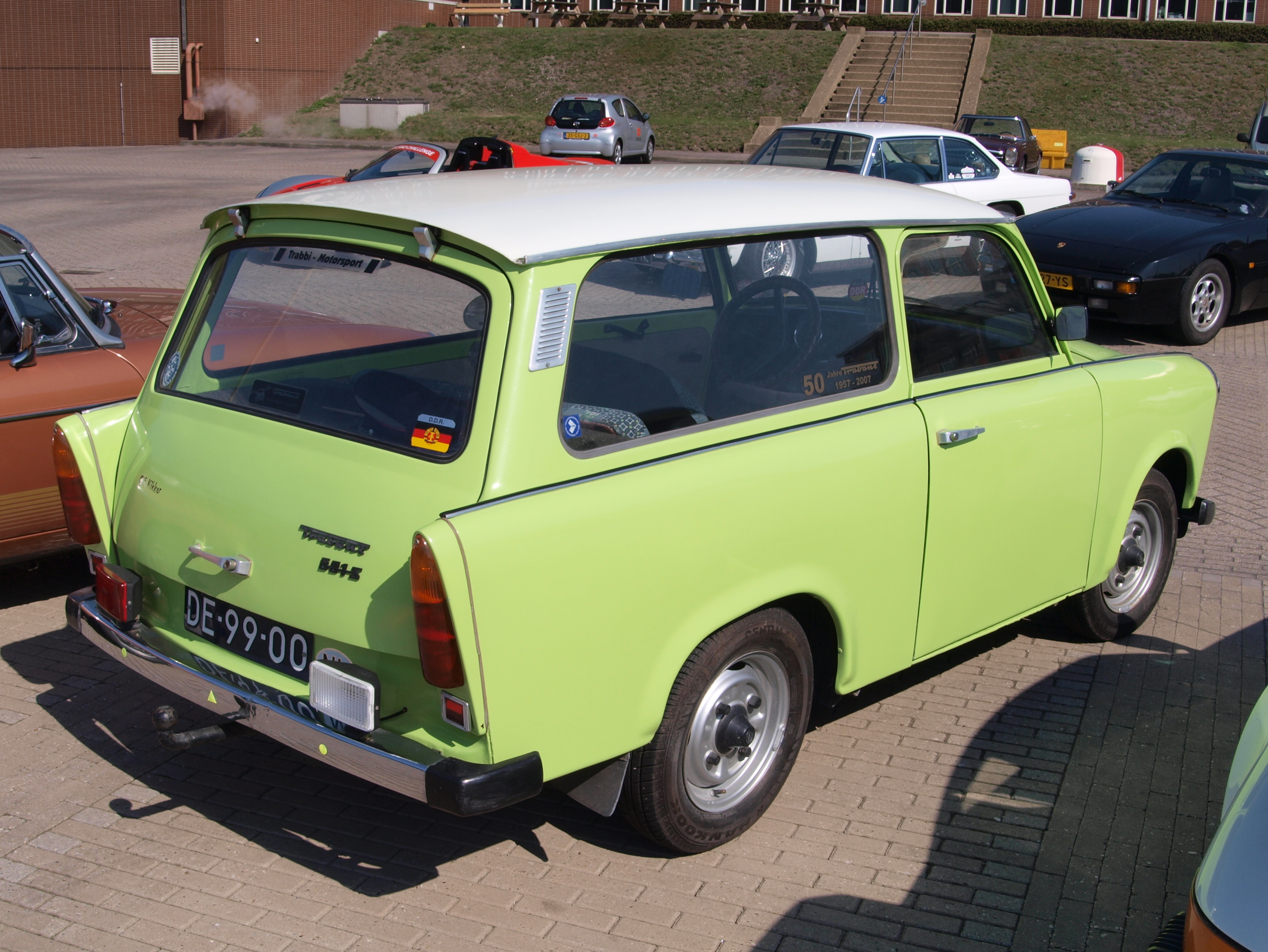 Photographed at the Hyacintenrit 2010, The Netherlands.